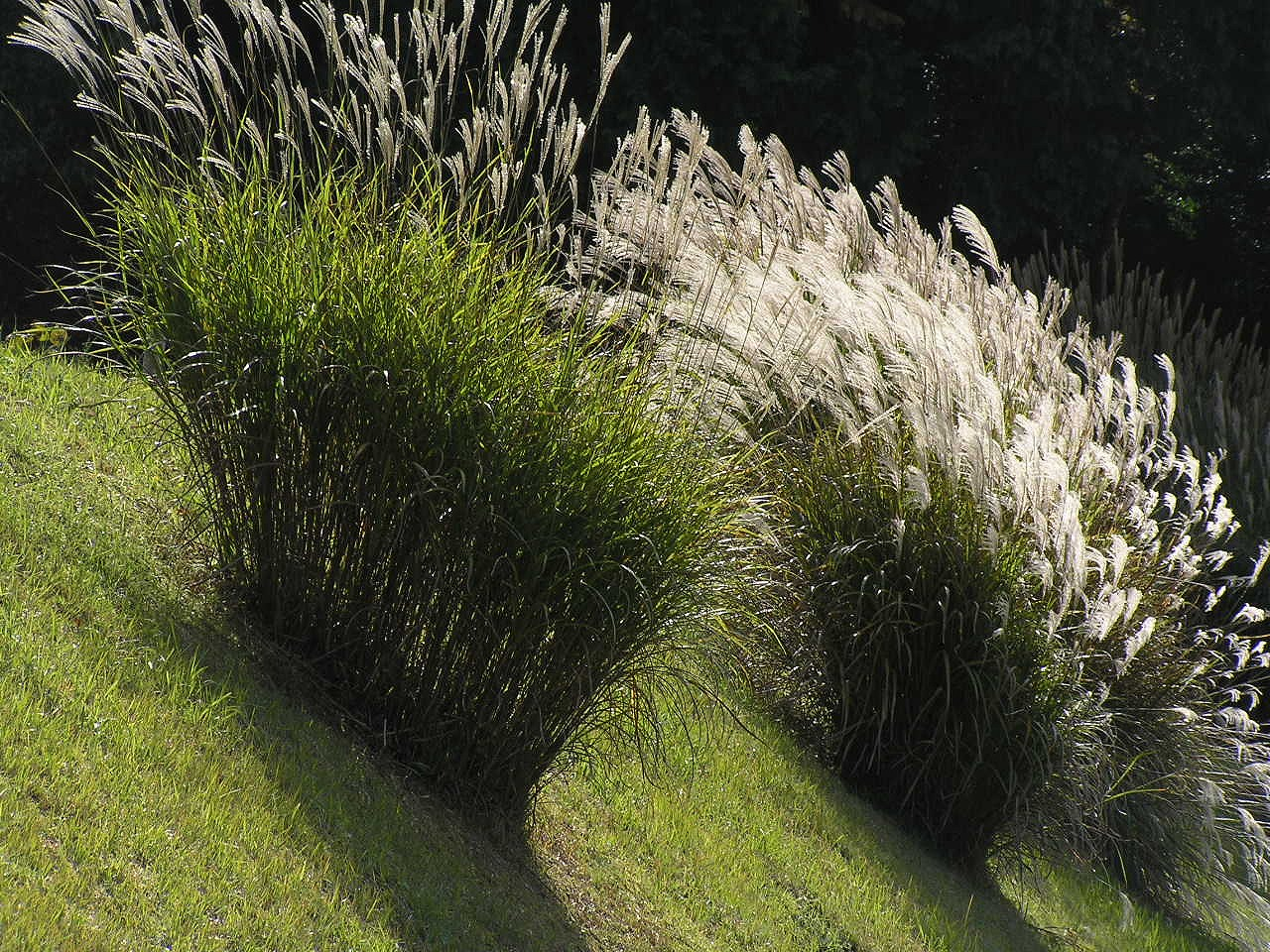 Japanese pampas grass